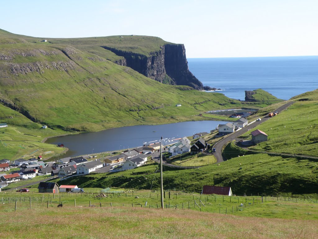 Vágur is a village in Suðuroy, Faroe Islands. The population is around 1350.